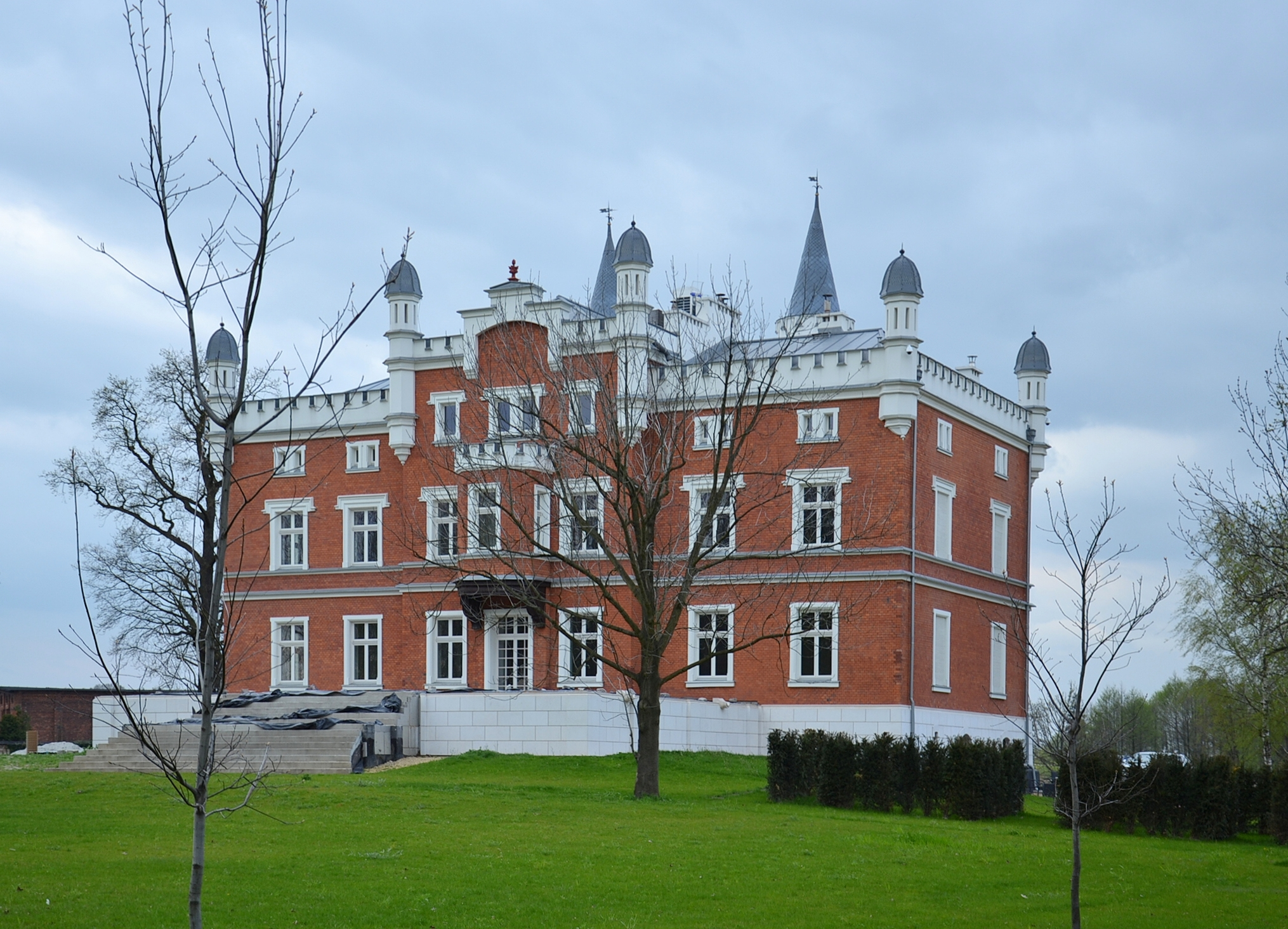 Palace in Szałsza (Schalscha, Kressengrund), Silesia